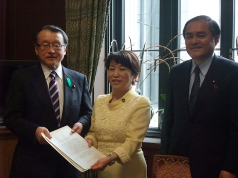 Masaharu Nakagawa, Minister of State for Gender Equality, met Mizuho Fukushima, President of the Social Democratic Party, and Tadatomo Yoshida, Secretary-General in the House of Councillors of the Social Democratic Party, on April, 2012. (For terms of use, see 内閣府ホームページ利用規約 - 内閣府.)